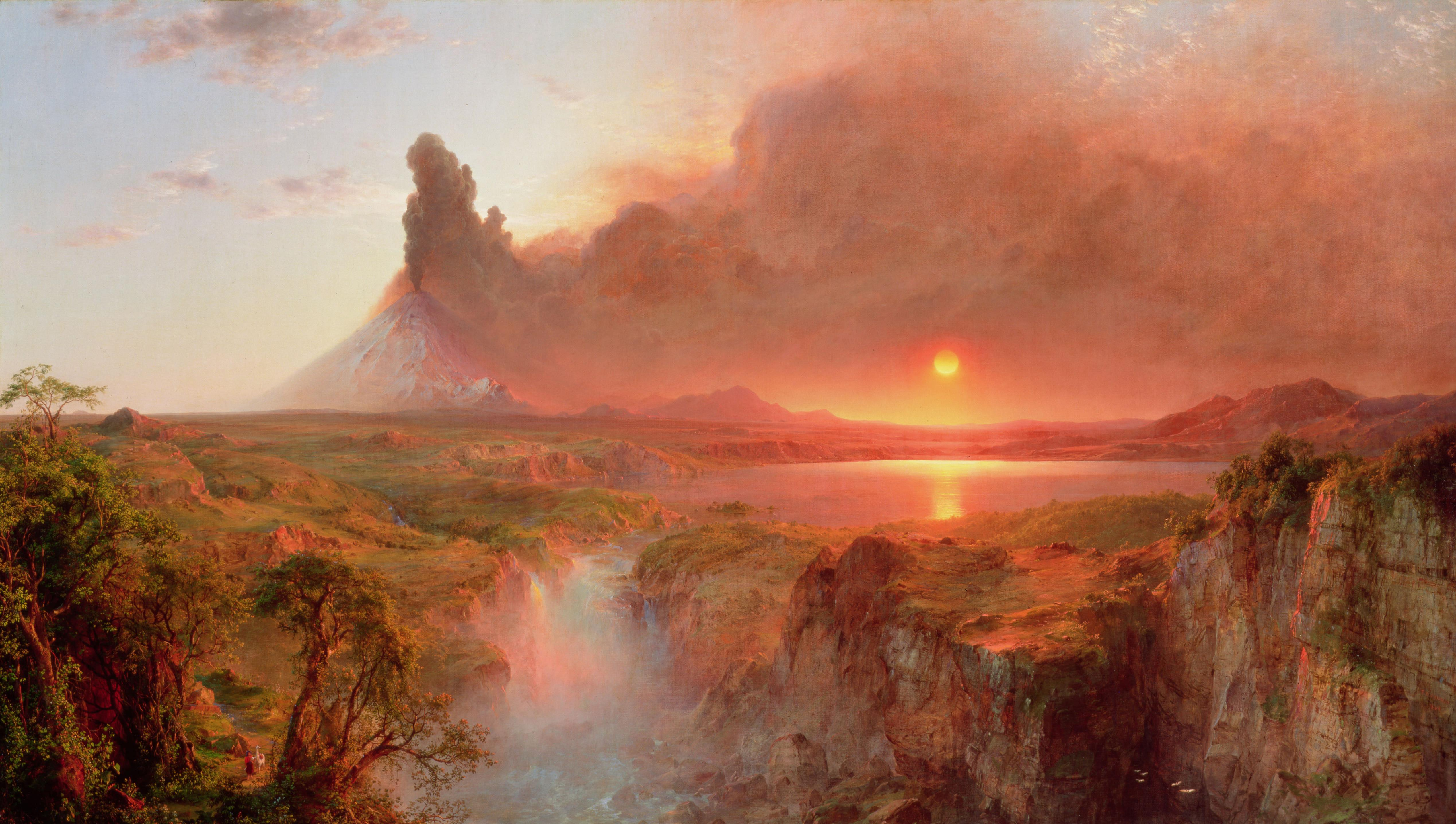 Cotopaxi